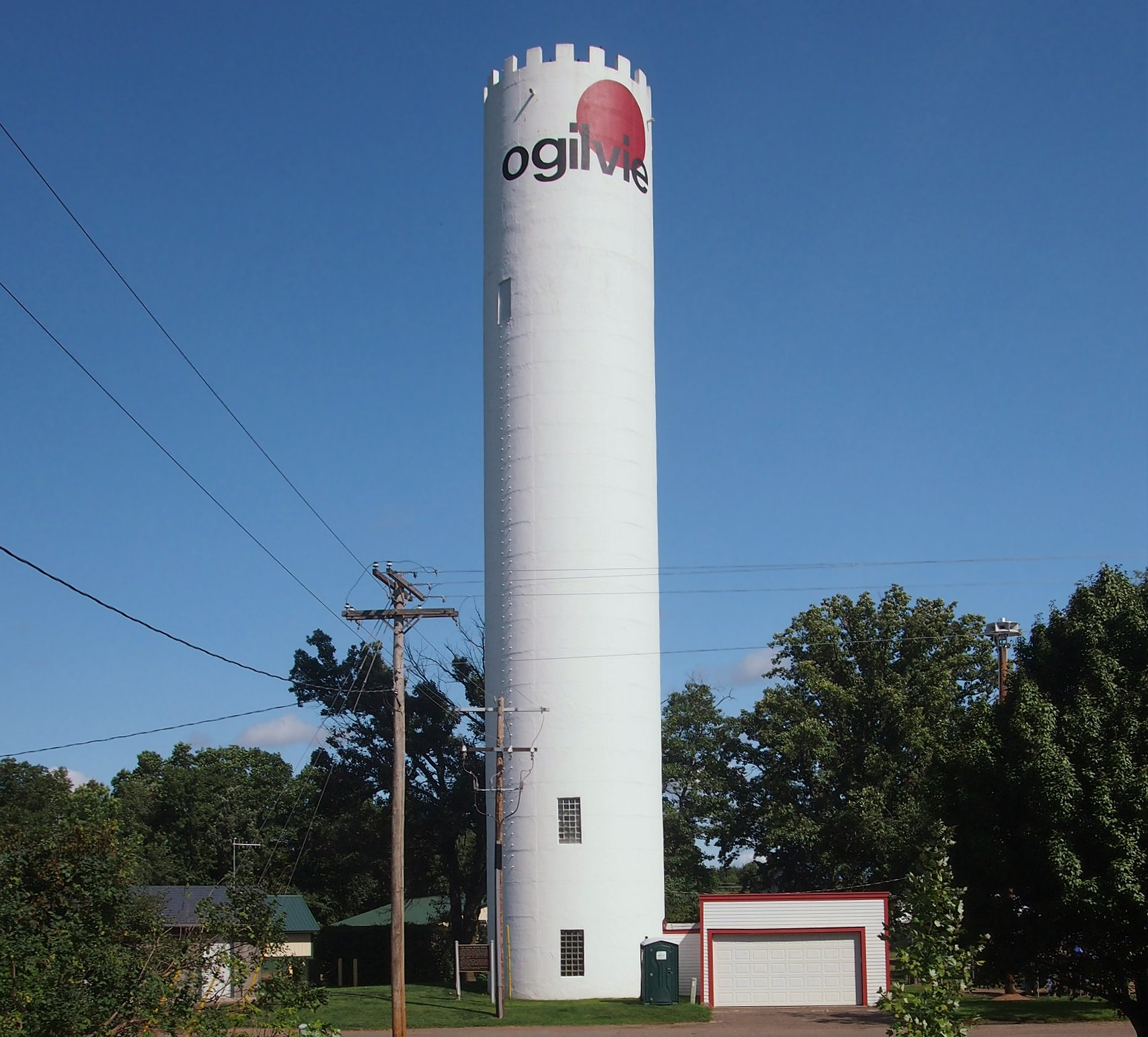 Ogilvie Watertower, Tower Park, Ogilvie, Minnesota, USA. Viewed from the south.